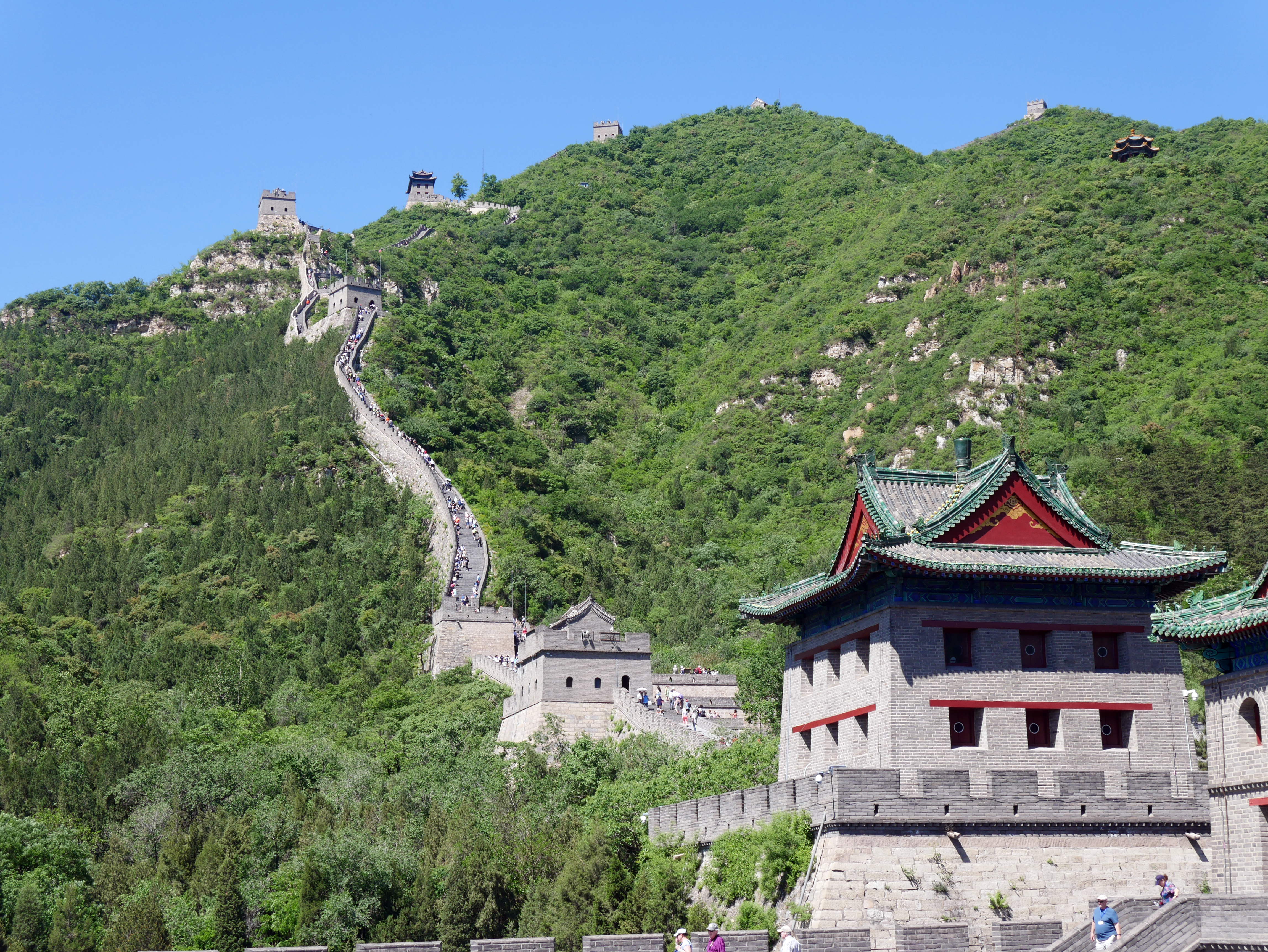 Great Wall of China at Juyongguan